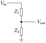 Voltage divider circuit